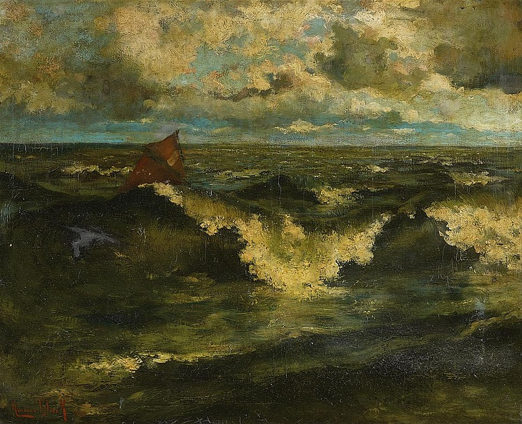 Churning sea